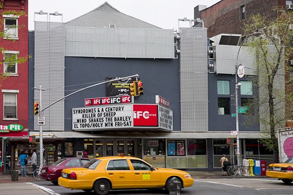 IFC Center.